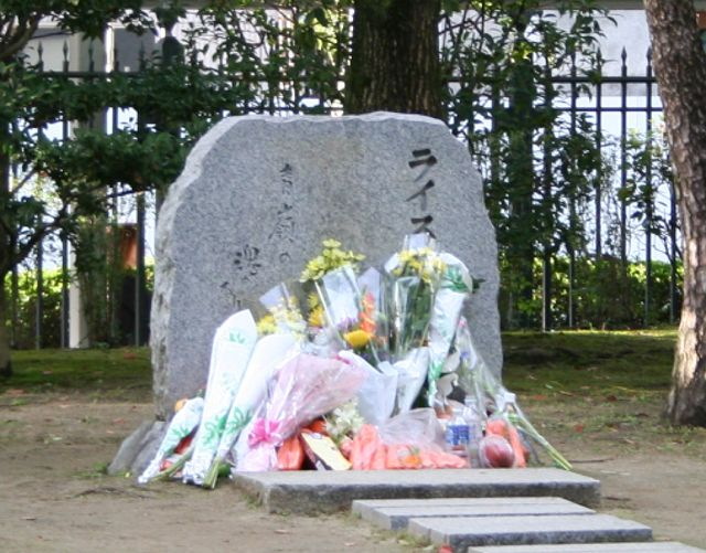 Rice Shower Monument ライスシャワー慰霊碑、2005年10月京都競馬場で撮影、撮影者 Goki